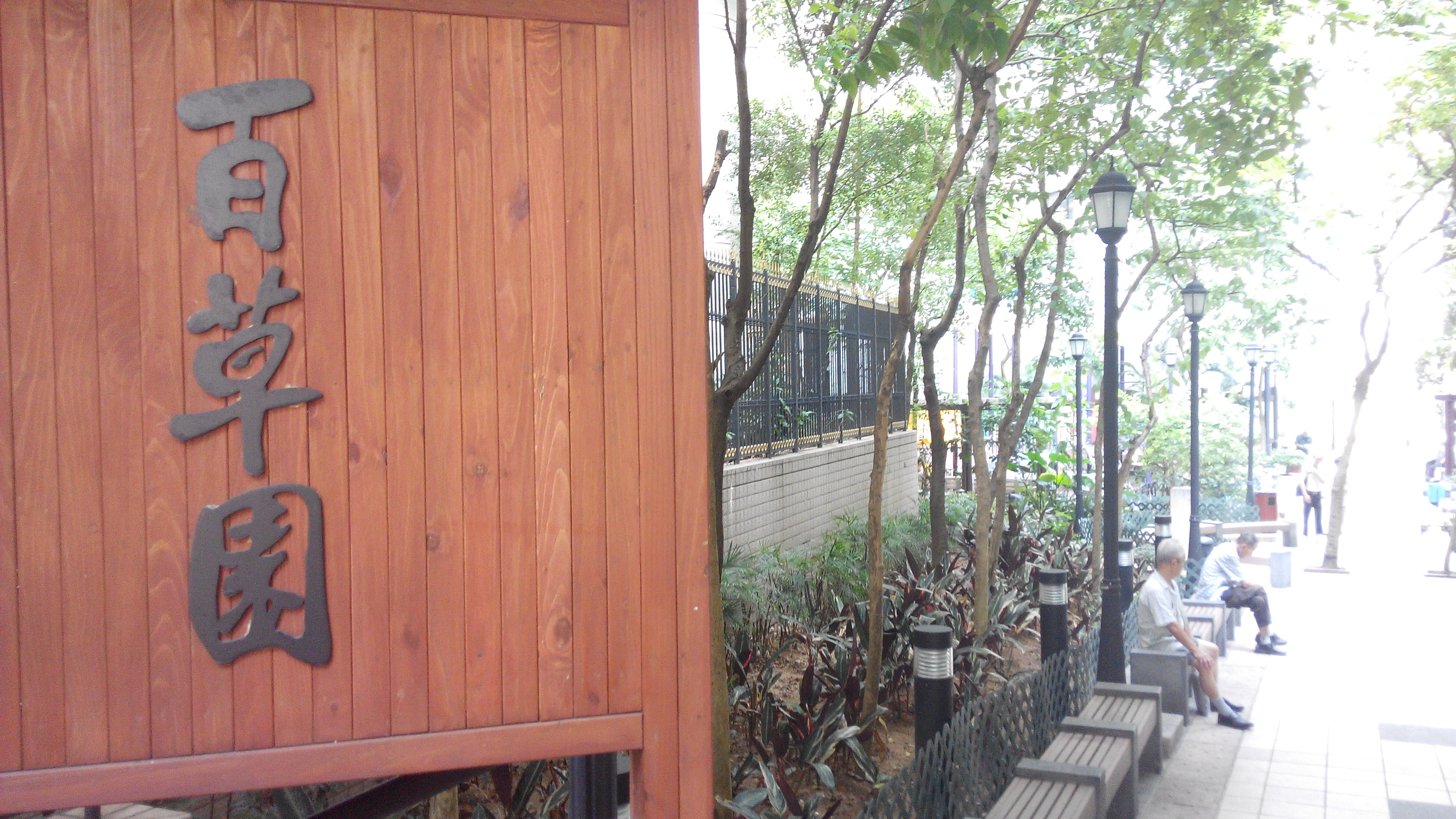 上環 香馨里 公園百草園, Heung Hing Lane garden, Wing Lok Street, Sheung Wan, Hong Kong